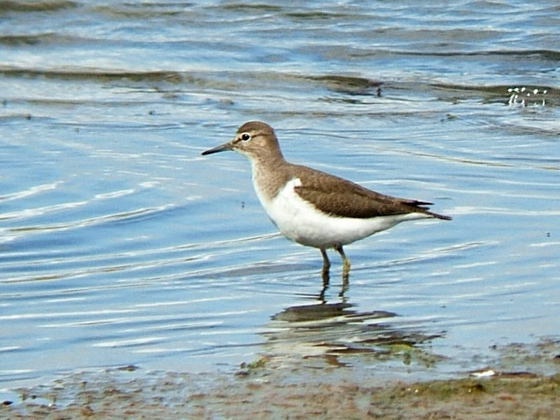 Actitis hypoleucos, Hauxley, Northumberland, UK